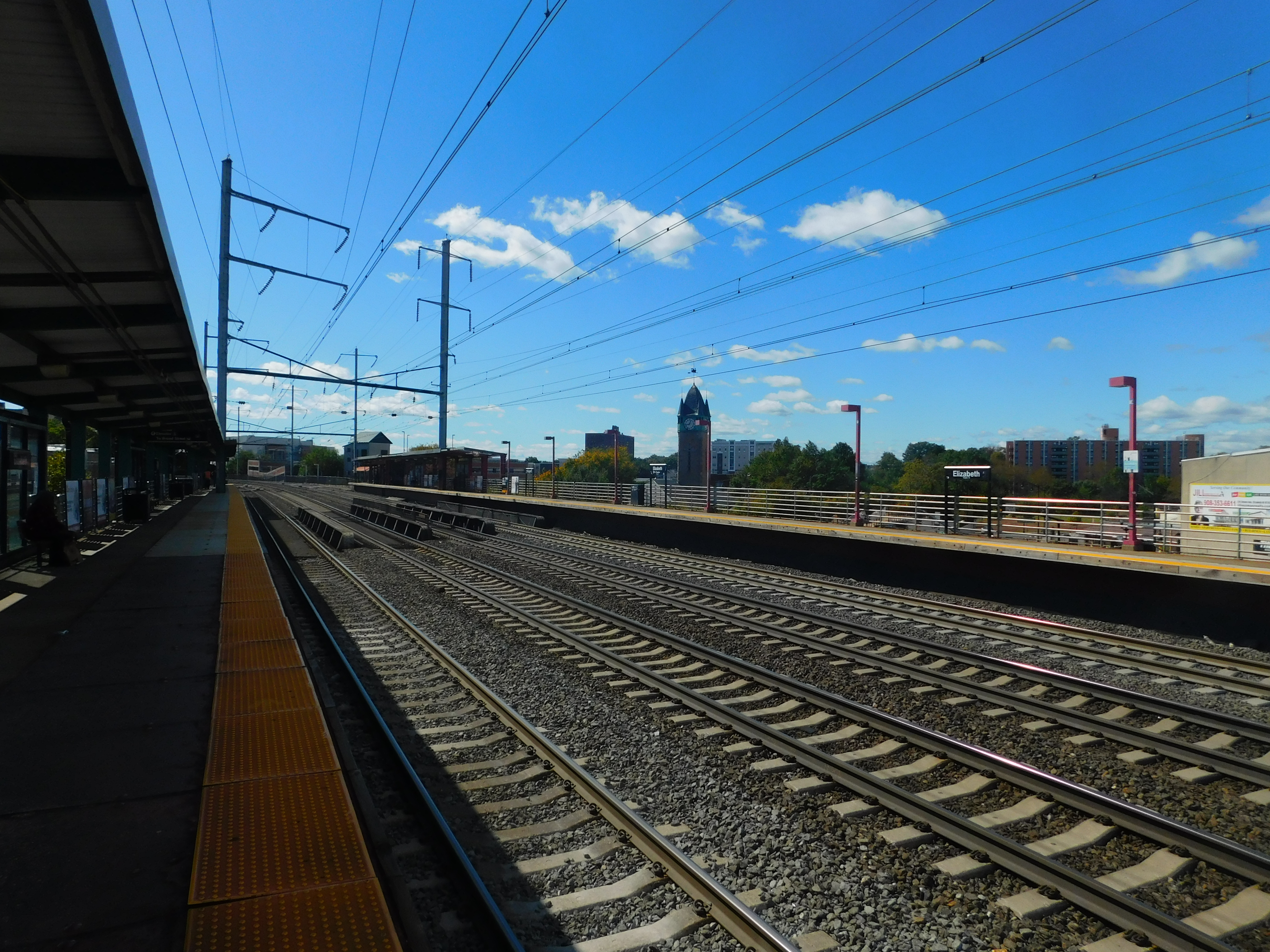 Elizabeth station in New Jersey Transit station in October 2019.